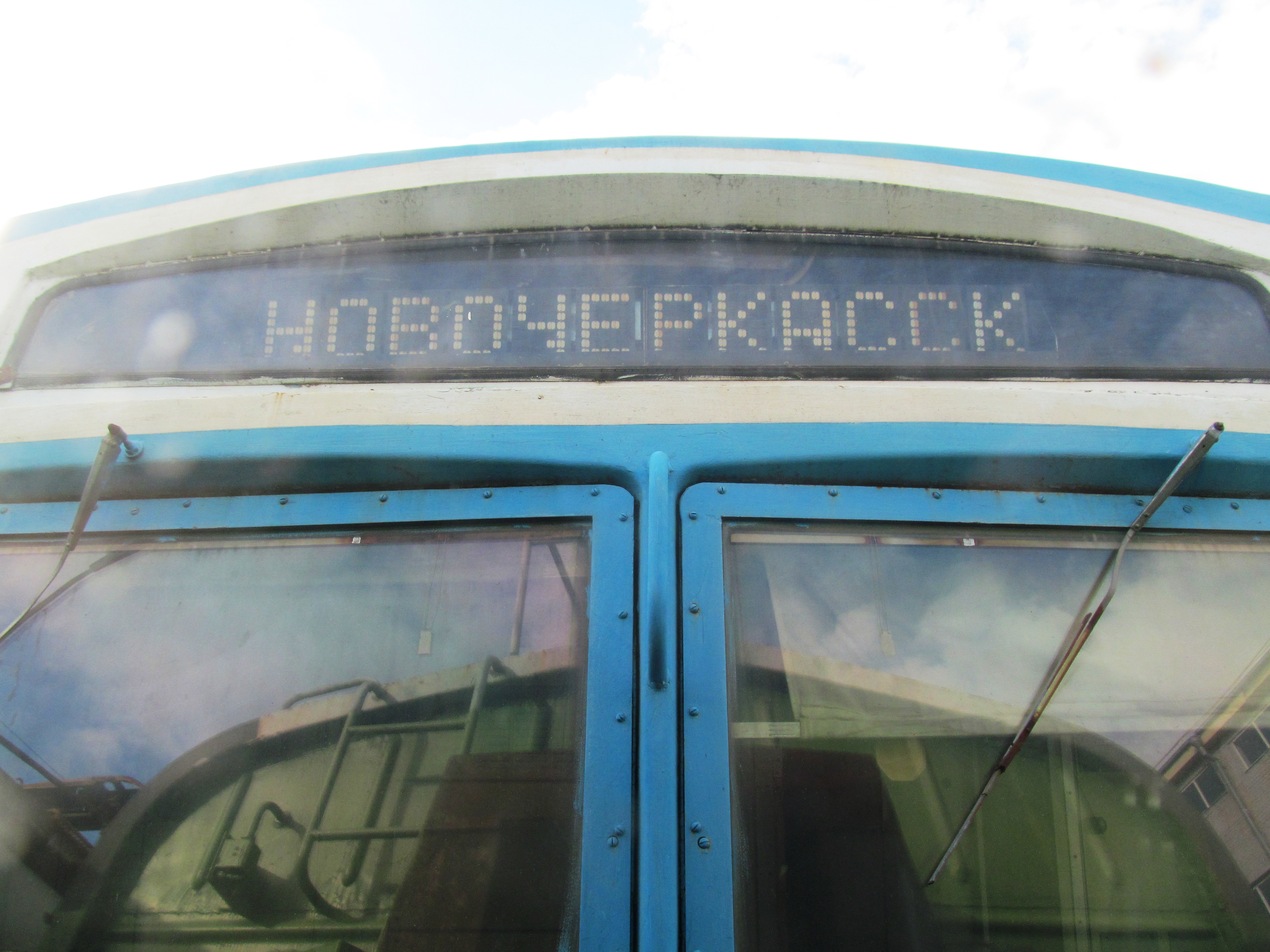 EMU EN3 forward trip indicator (car EN3-001.05, Rostov Museum of railway equipment)